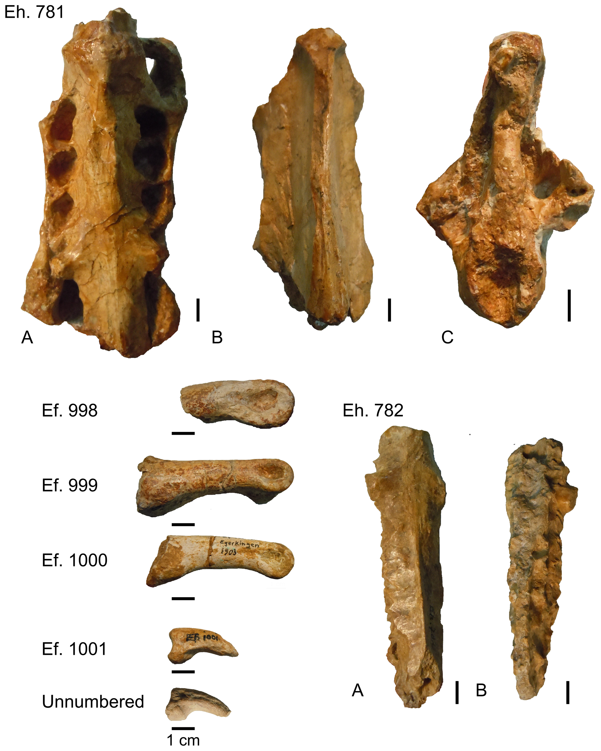 Eleutherornis cotei material from Egerkingen. Eh.781: anterior part of a pelvis (synsacrum and ilia), A) ventral view, B) dorsal view, C) cranial view; Eh.782: posterior part of a synsacrum, A) ventral view, B) dorsal view. Ef. 998, Ef. 999, Ef. 1000: phalanges; Ef. 1001 and unnumbered: ungual phalanges. Scale bars : 1 cm.